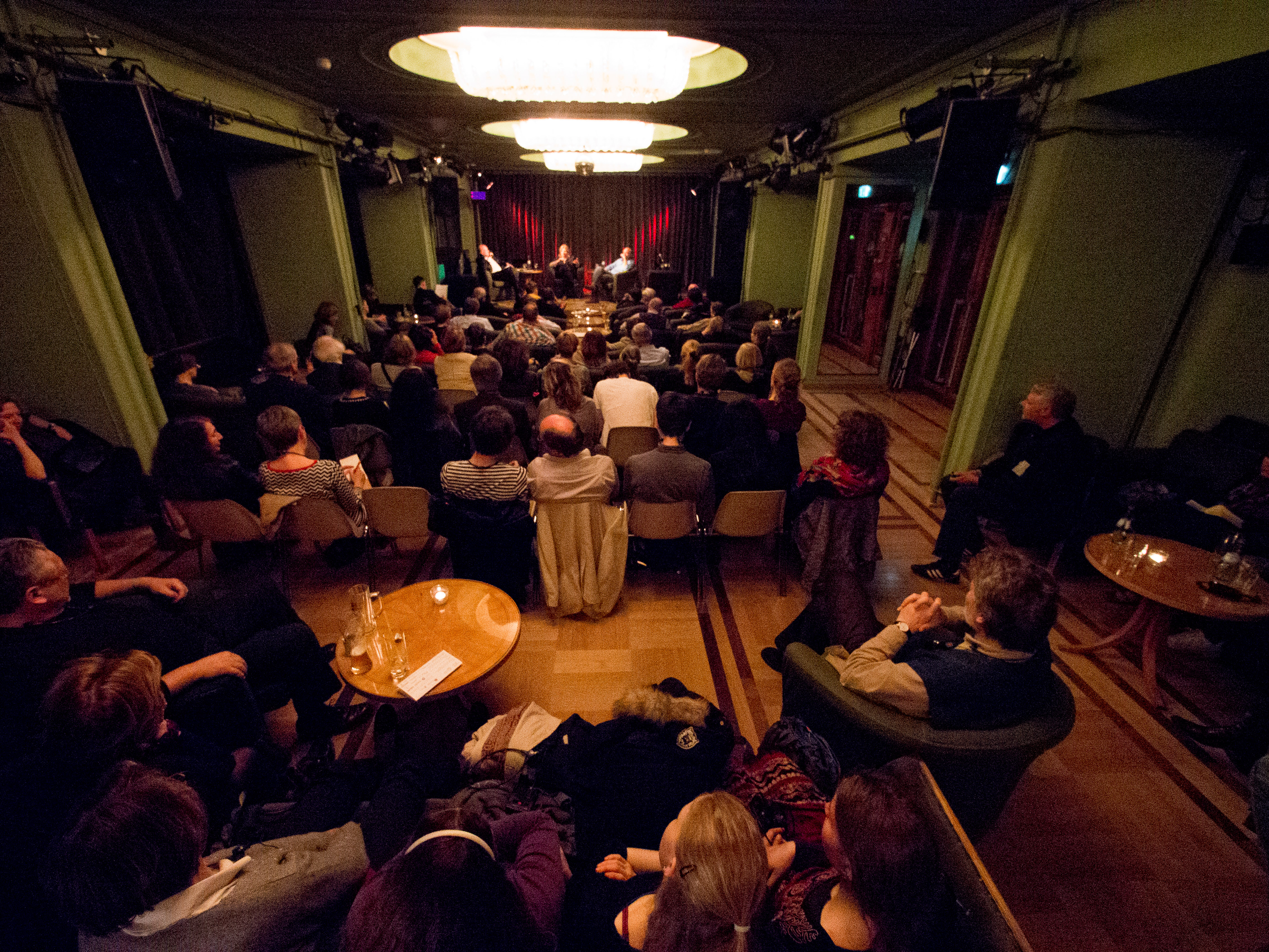 Foto